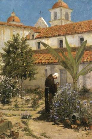 In the Garden, Mission Santa Barbara